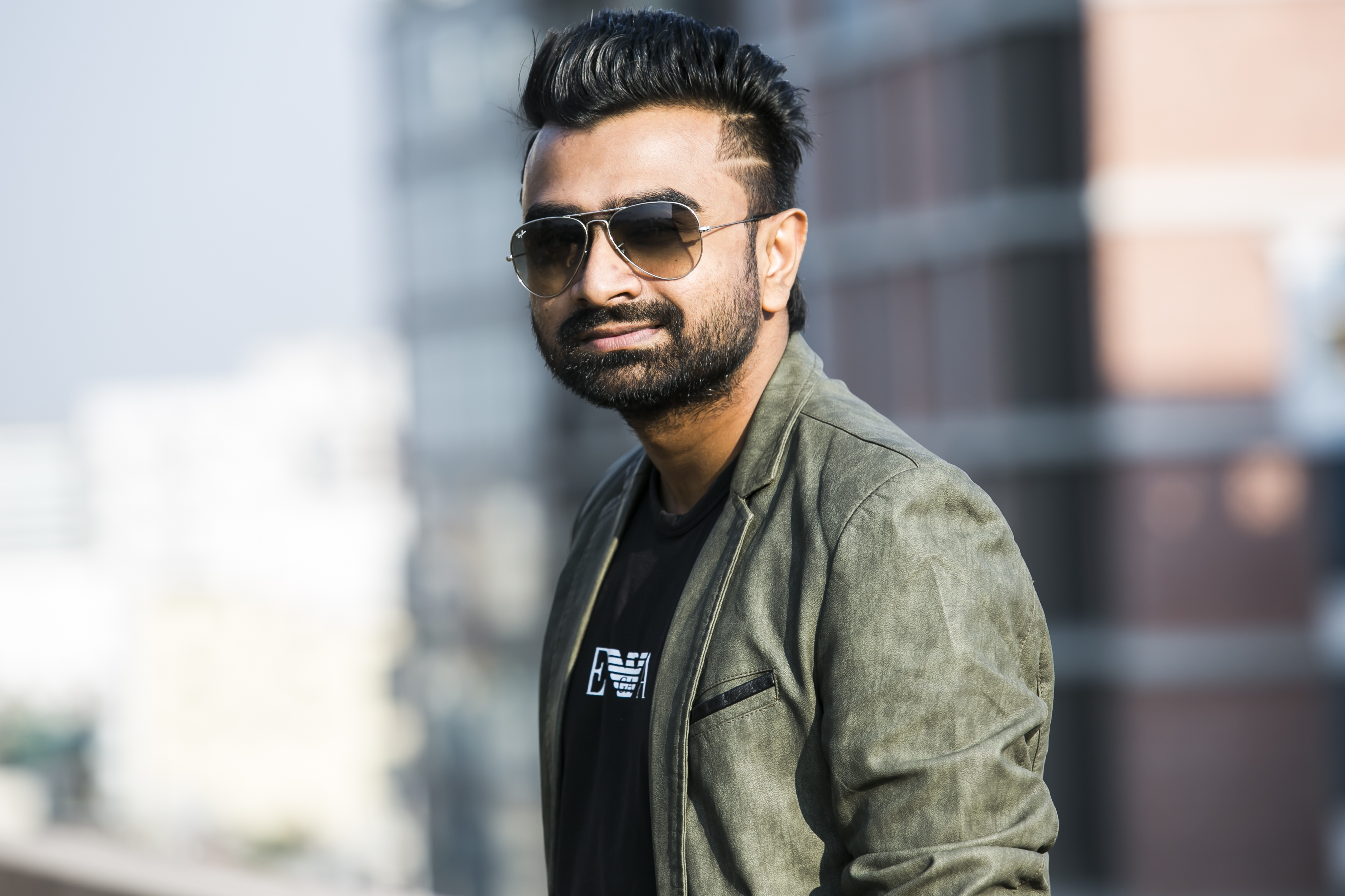 Imran Mahmudul, Bangladeshi singer and music director